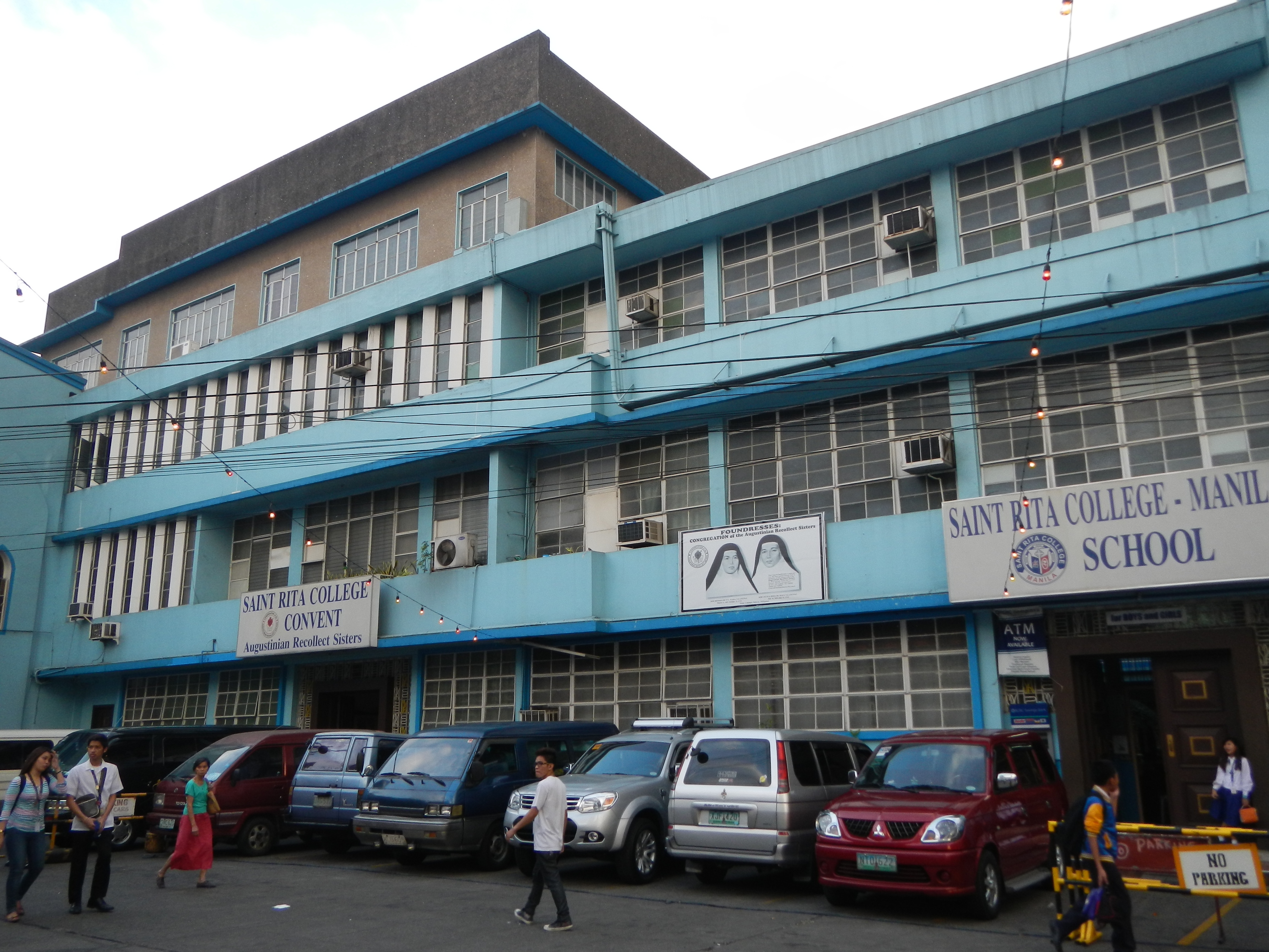 Beaterio de Terciarias Agustinas Recoletas List of Cultural Properties of the Philippines in Quiapo now Saint Rita College (Manila), Saint Rita College Convent, Saint Rita College by the Augustinian Recollect Sisters Augustinian nuns Order of Augustinian Recollects #74 San Rafael Street, Plaza del Carmen, Quiapo, Manila 1719 Beaterio de Terciarias Agustinas Recoletas 1939 Marker; the Beaterio gave the first Habit to and was founded by Servants of God Dionisia de Santa María Mitas Talangpaz (1691–1732)] and Rosa de Jesús Talangpaz (1693–1731)) Foundresses 1725 in Plaza del Carmen, Legislative districts of Manila 3rd District, Barangays 390, 391, 392 and 393, Zone 40, District III, Quiapo, Manila, City of Manila.